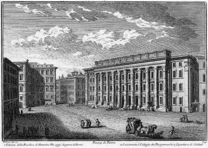 1) Colonne della Basilica di Antonino Pio, today Dogana di Terra; 2) Collegio dei Bergamaschi; 3) Quartiere di Soldati.